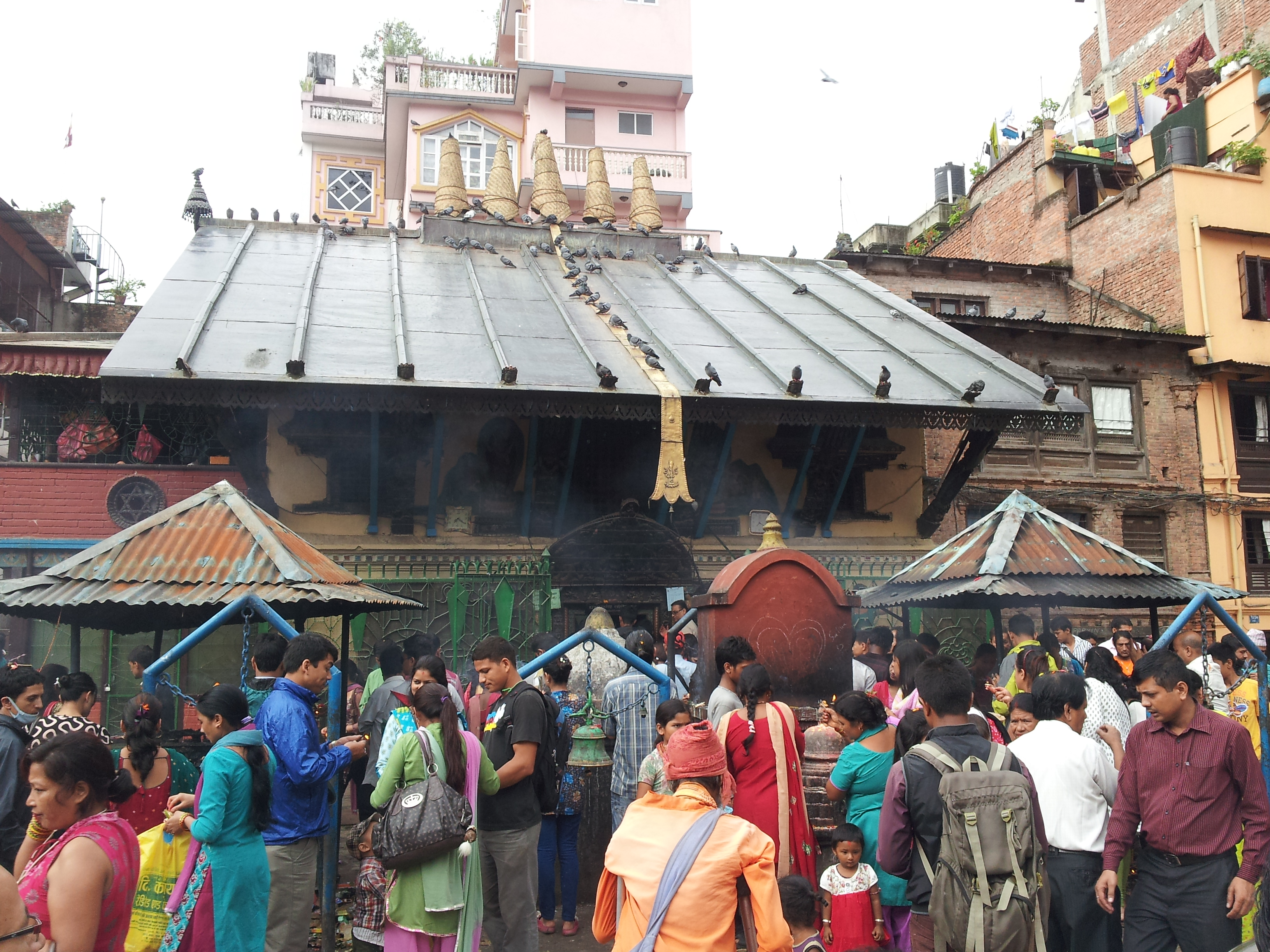 Saturday crowd of devotees at Sankata temple Newroad Kathmandu.